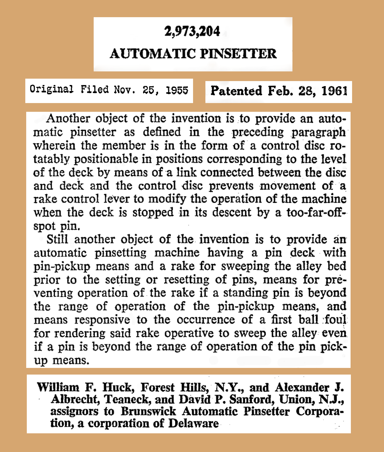 Objects of the invention for U.S. Patent 2,973,204 (inventors: Huck et al).